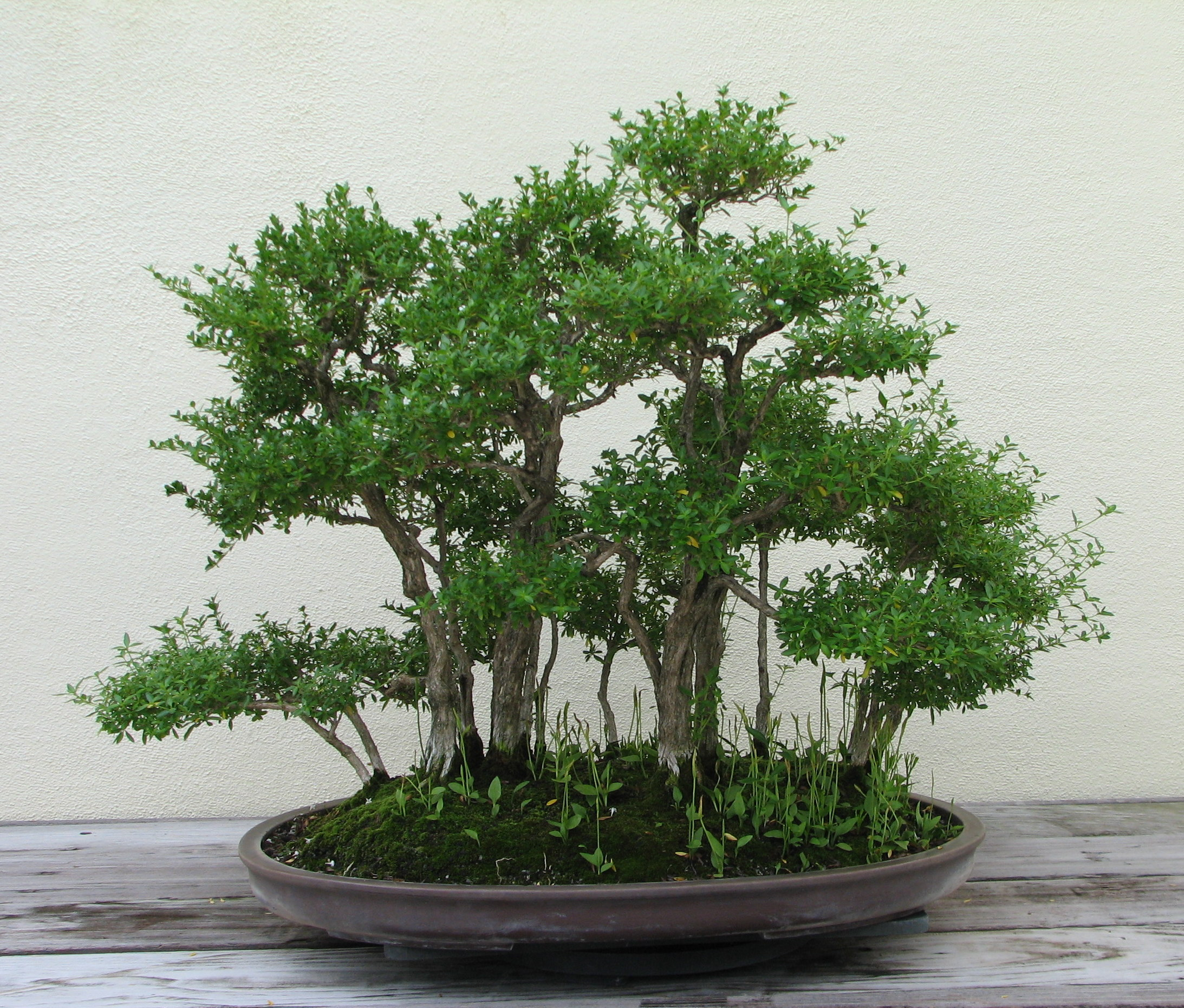 A Japanese Boxthorn (Serissa japonica) bonsai on display at the National Bonsai & Penjing Museum at the United States National Arboretum. According to the tree's display placard, it has been in training since 1951. It was donated by Shu-ying Lui.